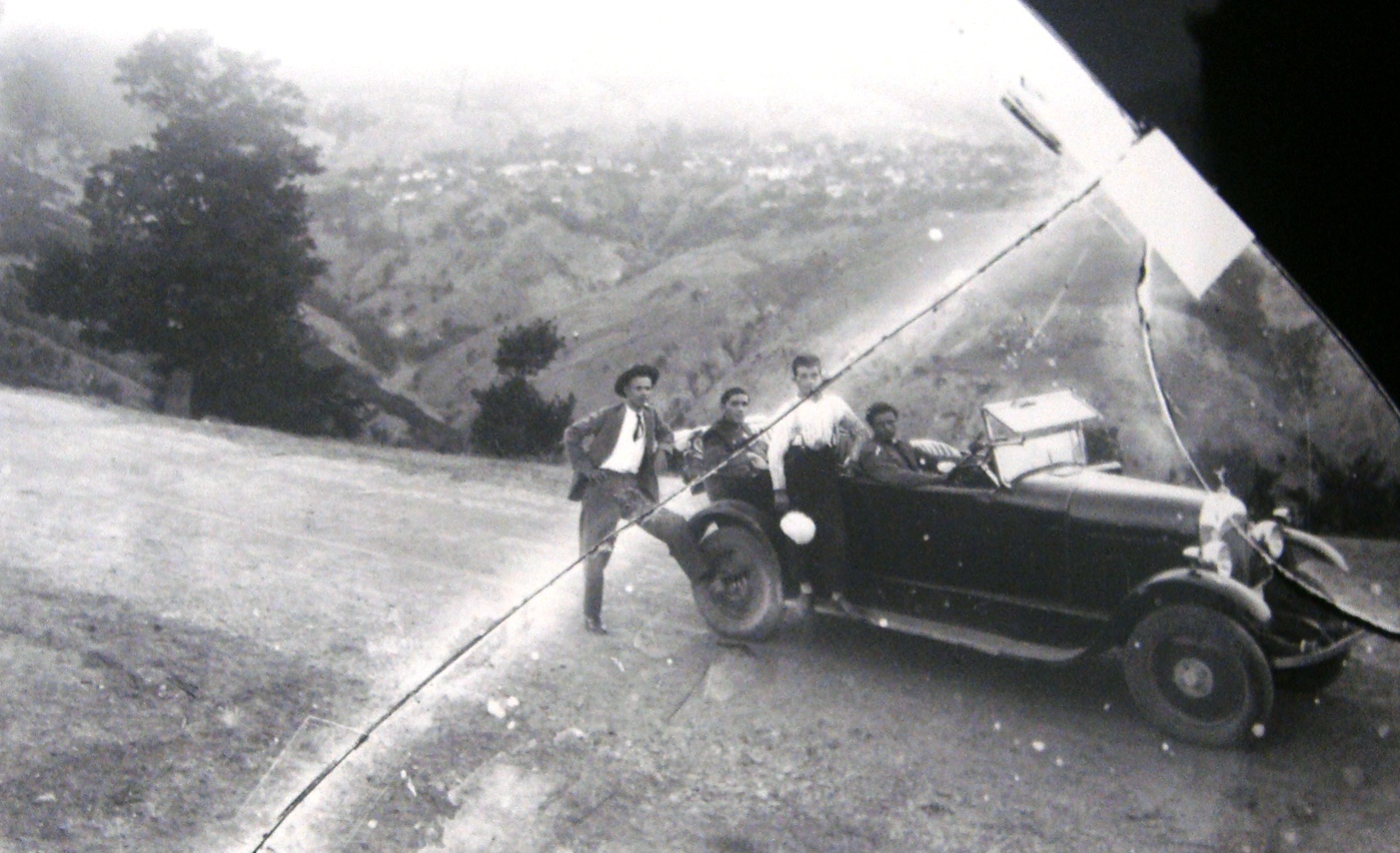 Panorama of the village Gopeš. 1918-1941 This media file is produced by Wikipedian in Residence in Category:Wikipedian in Residence at DARM in 2016.